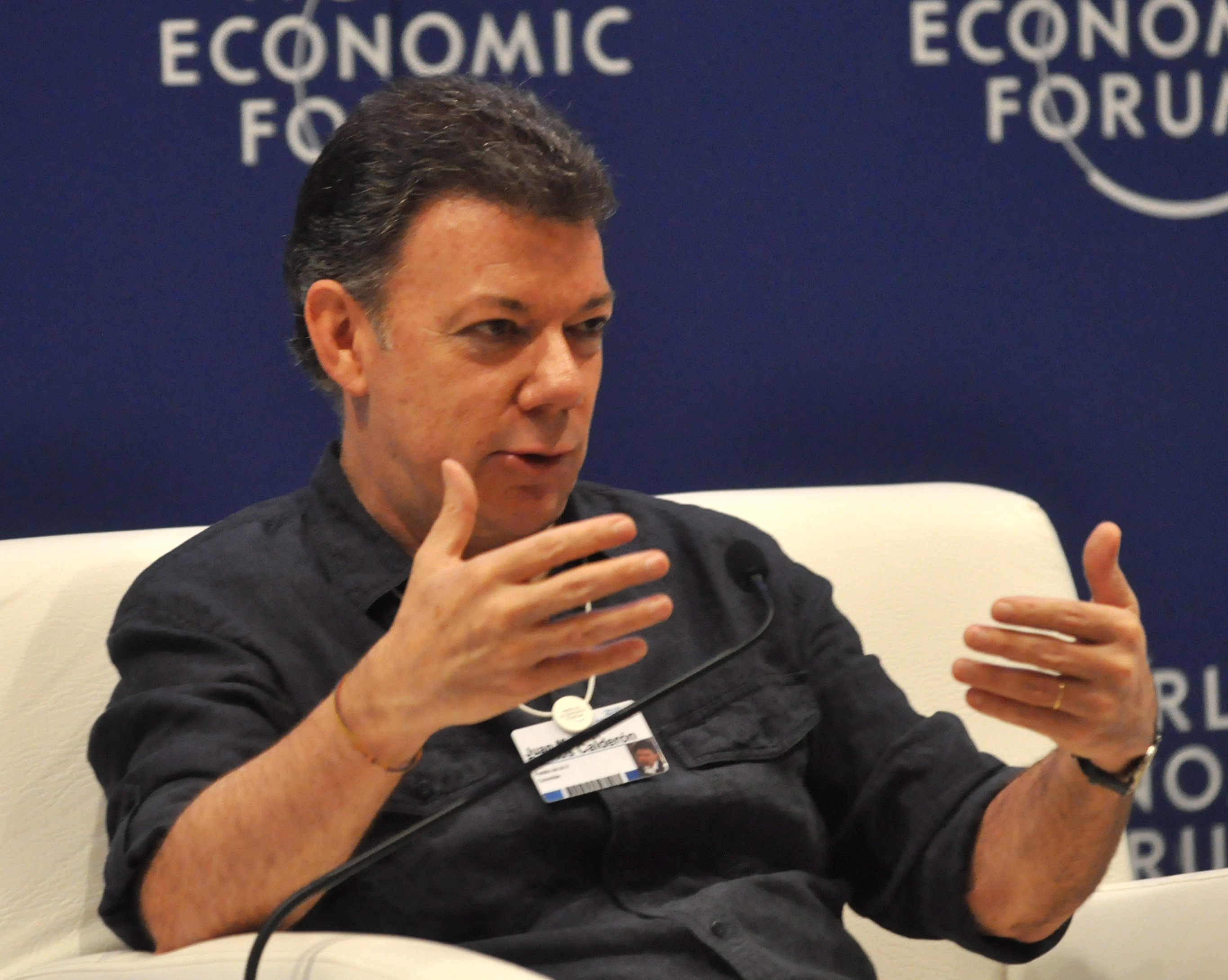 CARTAGENA/COLOMBIA, 8 APRIL 2010 - Juan Manuel Santos Calderón, Presidential Candidate, Partido de la U, Colombia, in the session Economic and Social Investment Opportunities in Colombia at the World Economic Forum on Latin America 2010 in Cartagena Convention Center from 6 - 8 April.